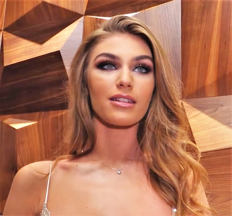 Trejsi Sejdini "Miss Universe Albania" on T7 Sevenbizz